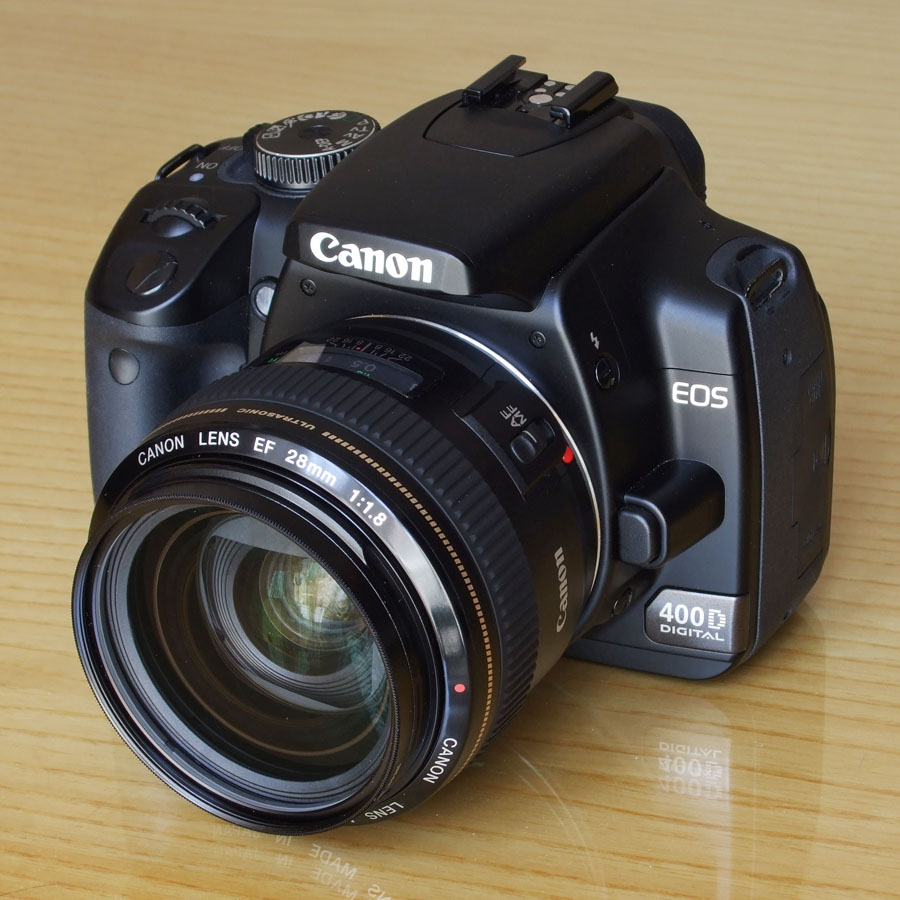 Canon EOS 400D / Rebel Digital XTi / EOS Kiss Digital X. Here with a EF 28mm f/1.8 lens mounted.